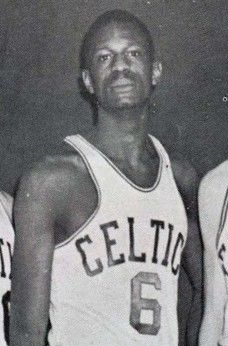 The 1956-57 Boston Celtics that won the first championship for the franchise.